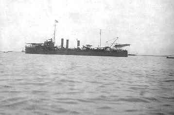 Hr.Ms. Vos (1914-1928) for the reason of Tandjong Priok